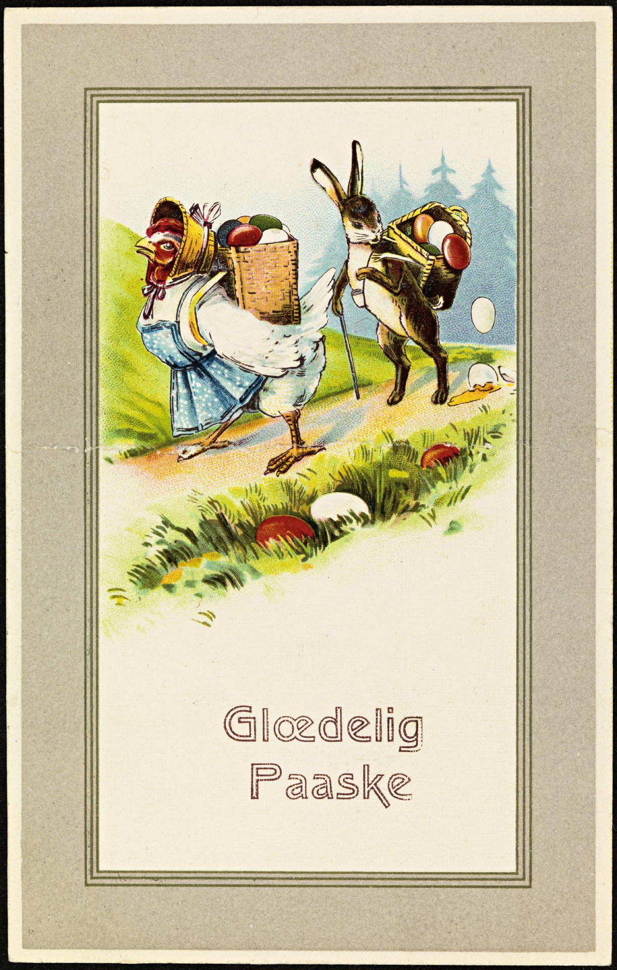 Tittel / Title: Glædelig Paaske / God påske / Happy Easter Motiv / Motif: Postkort. Dato / Date: ca 1918 Kunstner / Artist: ukjent / unknown Utgiver / Publisher: SB Eier / Owner Institution: Nasjonalbiblioteket / National Library of Norway Lenke / Link: Bildesignatur / Image Number: blds_04803